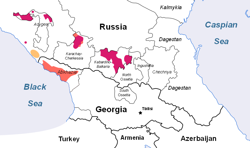 Approximate distribution of the branches of the Northwest Caucasian languages Circassian Abazgi Ubykh (extinct)